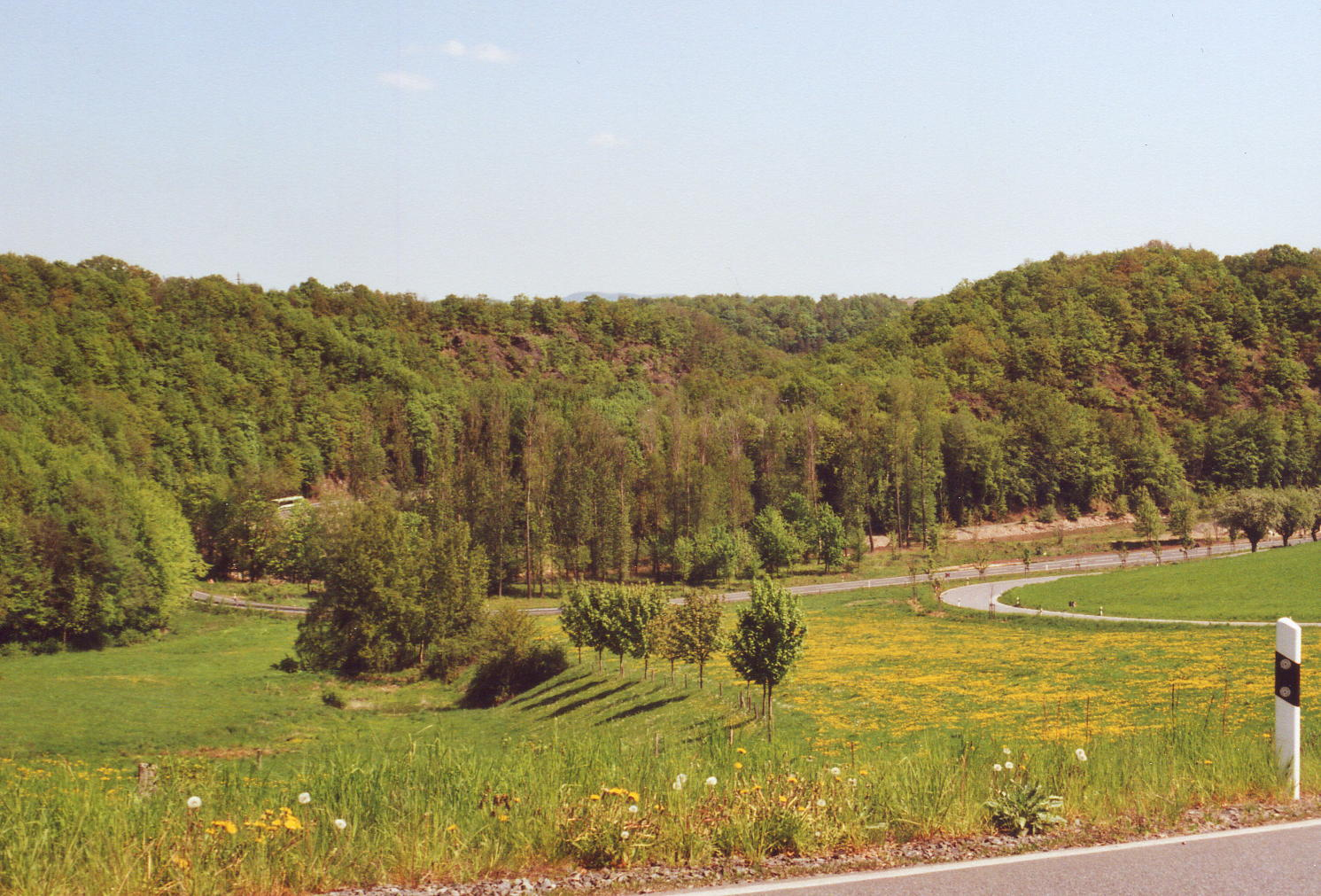 This image shows the Müglitz valley near Weesenstein castle in Saxony, Germany.